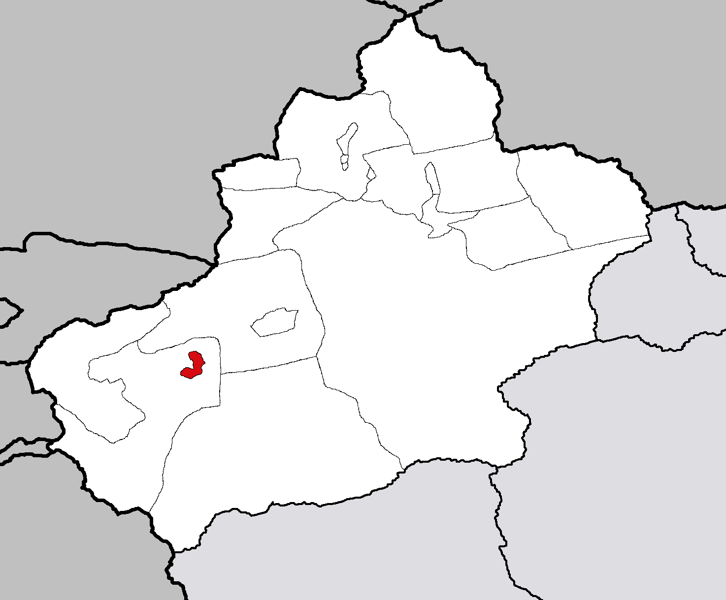 Tumushuke sub-prefecture in Xinjiang autonomous region (China) Summary location of Tumshuq in Xinjiang